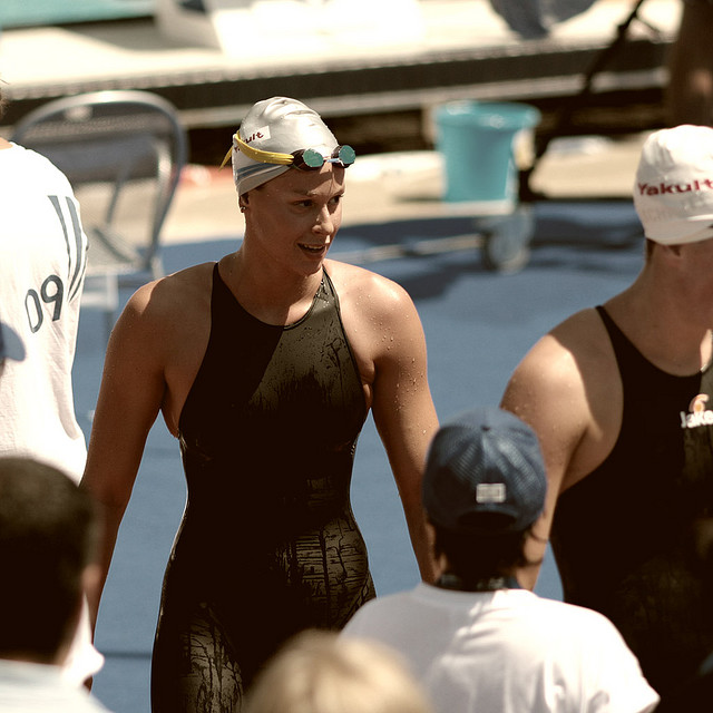 Italian swimmer Federica Pellegrini during 2009 FINA World Swimming Championships, Rome, Italy.